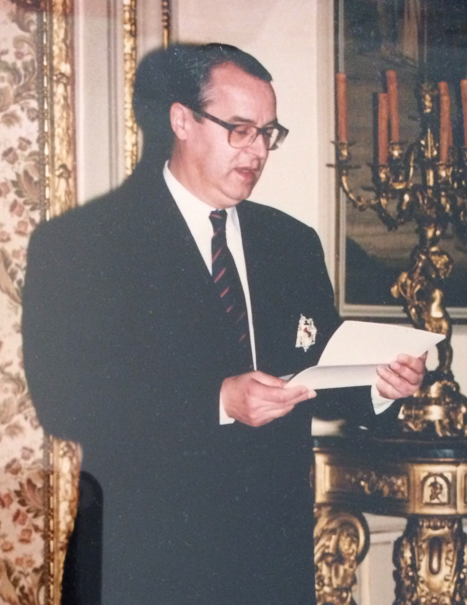 René Quatrefages, speech at the presentation of the Spanish Cross of Military Merit 1st class